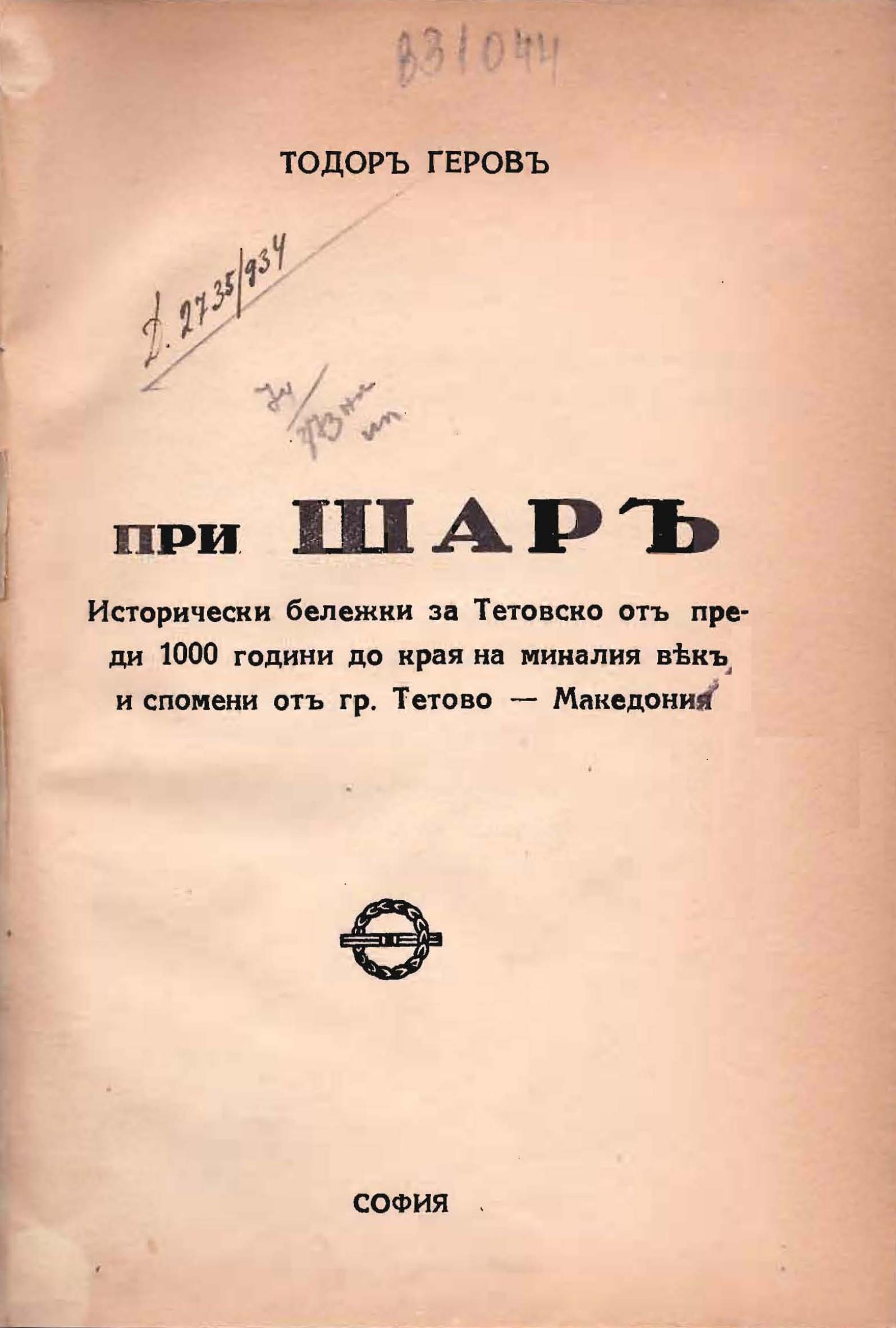 Pri Shar by Todor Gerov